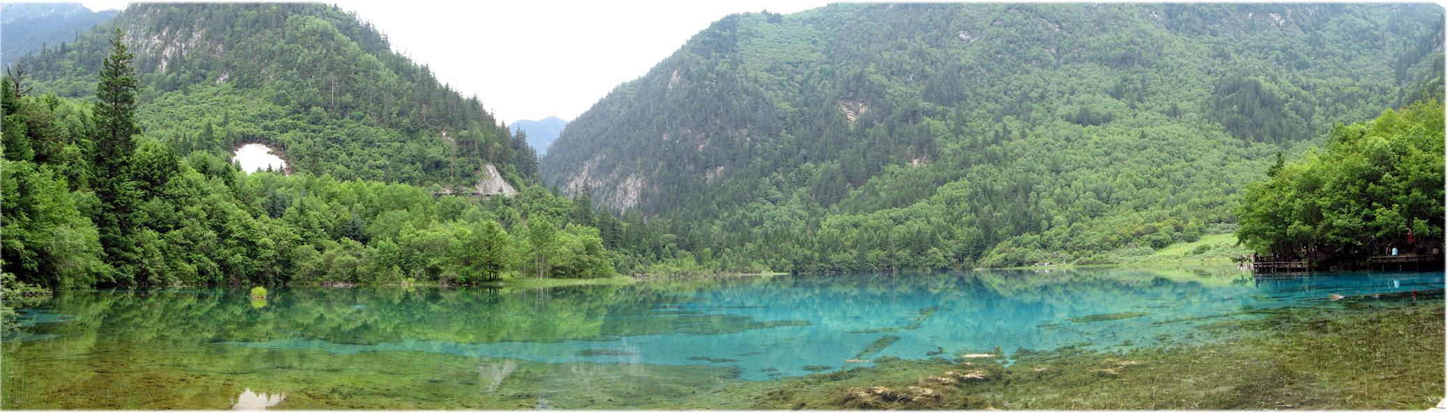 Colorful Lake, in Jiuzhaigou, Sichuan, China Photo by Dice, 2006.06.23